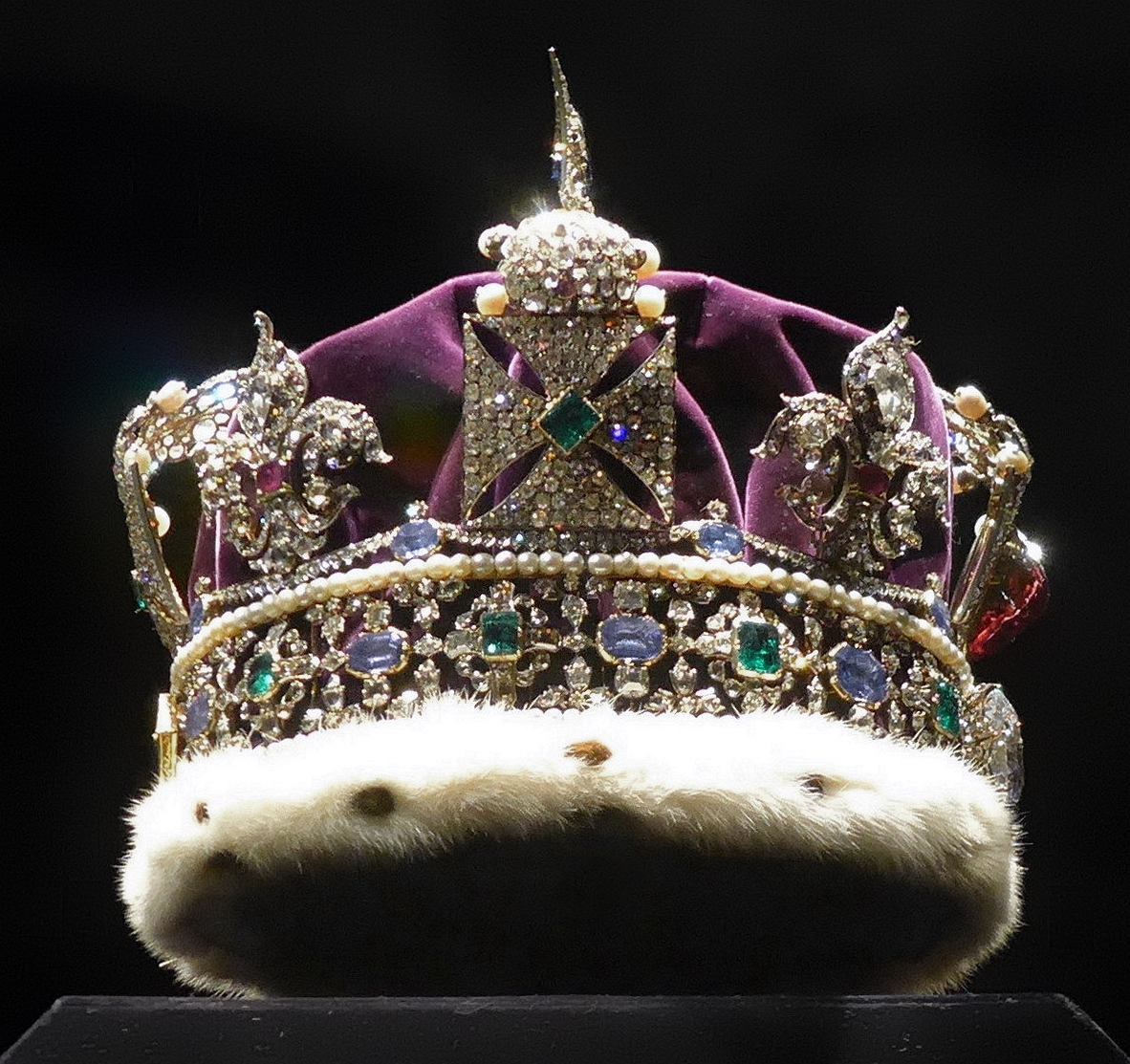 Imperial State Crown (made in 1937 with alterations in 1953) - side view from bottom up with the front to the right; picture taken at the exhibition of the Crown Jewels of the United Kingdom inside the Jewel House (Waterloo Baracks, Tower of London)